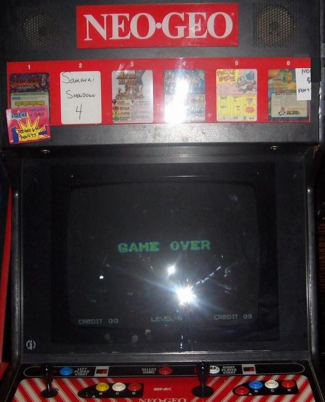 Neo Geo 6 port arcade cabinet